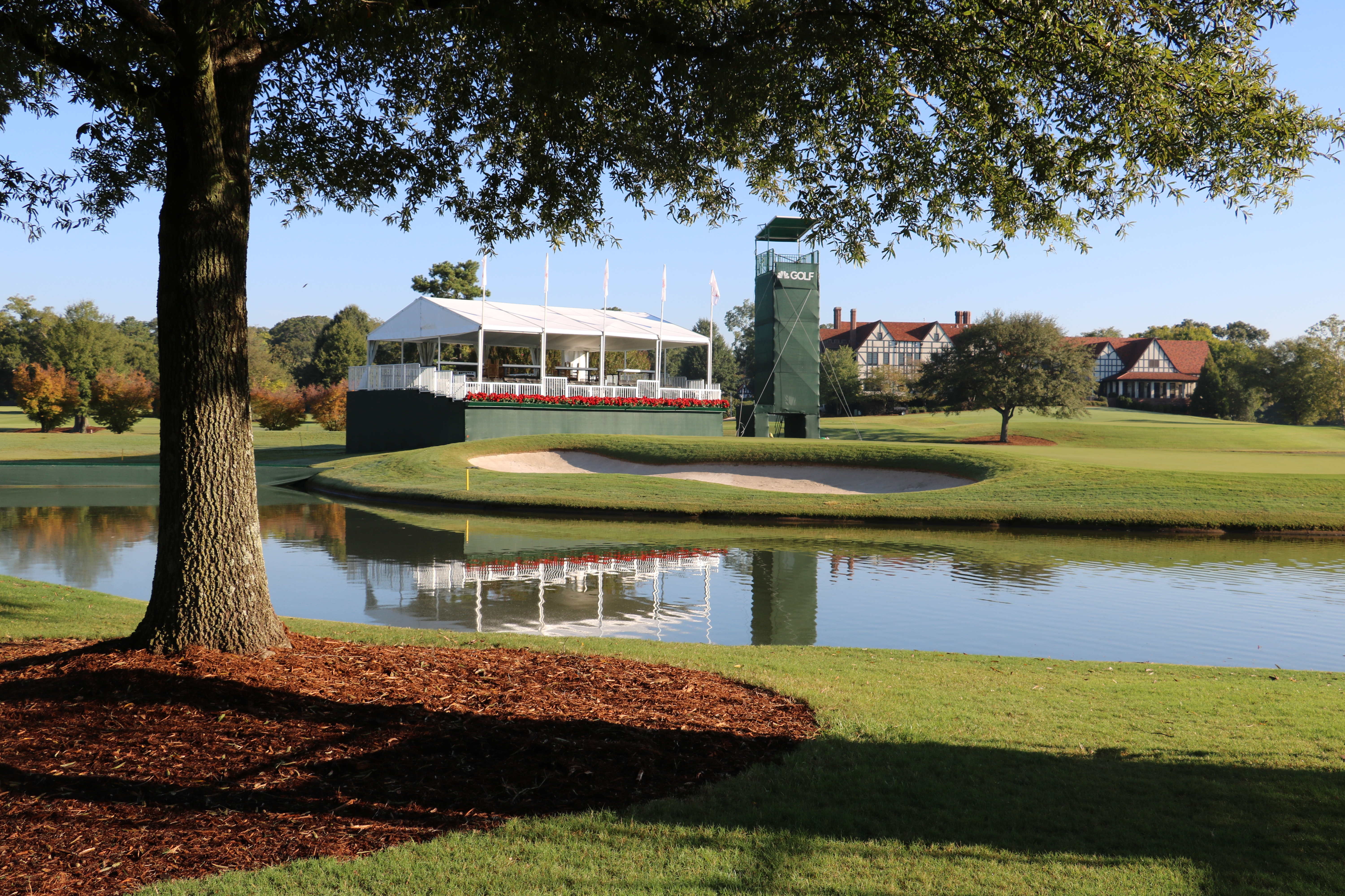 East Lake Golf Club is home to the TOUR Championship by Coca-Cola